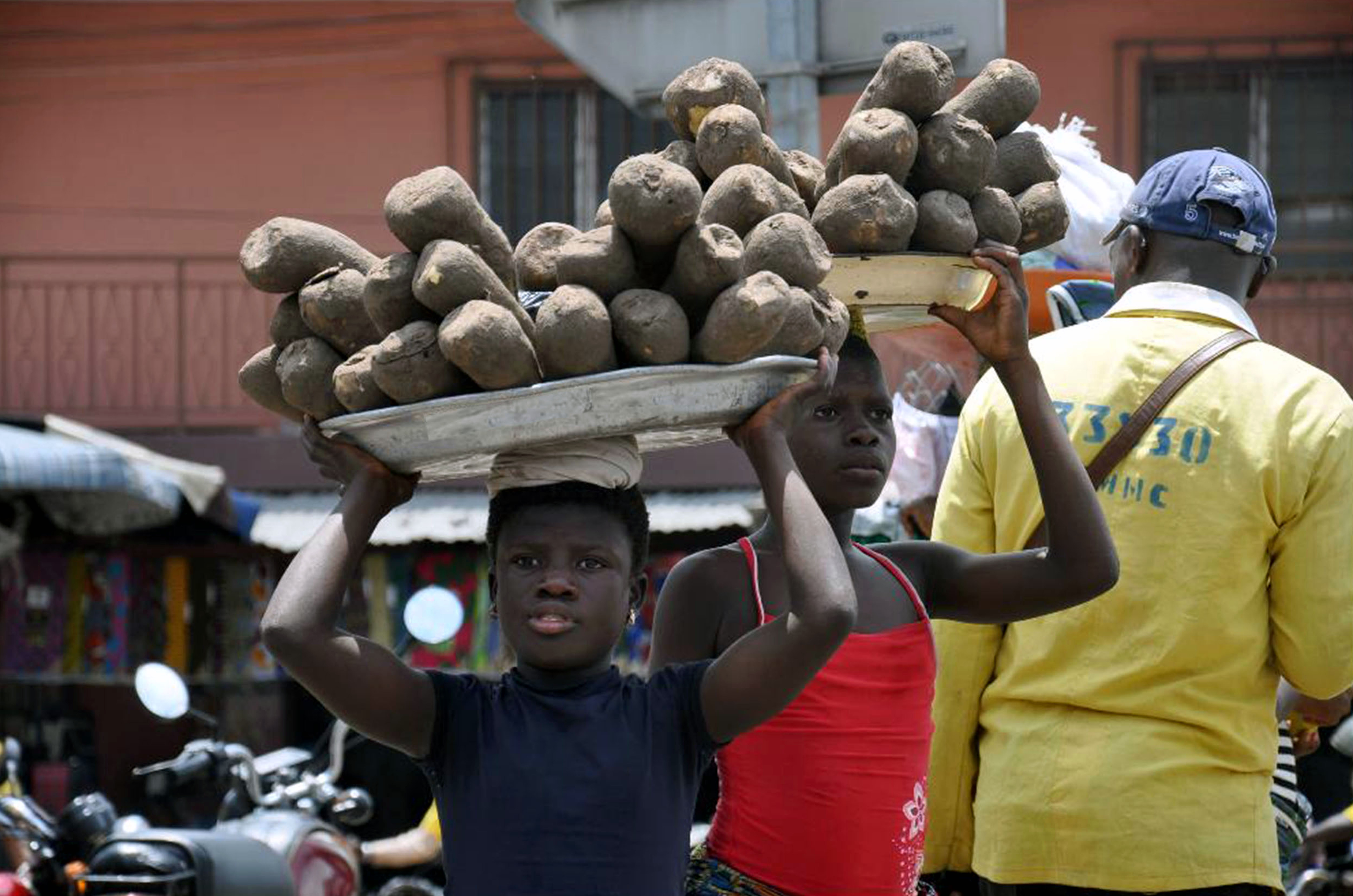 despite the many sensitizations to fight against child labor, poor parents use their offspring to make ends meet This is an image with the theme "Africa on the Move or Transport" from: Benin